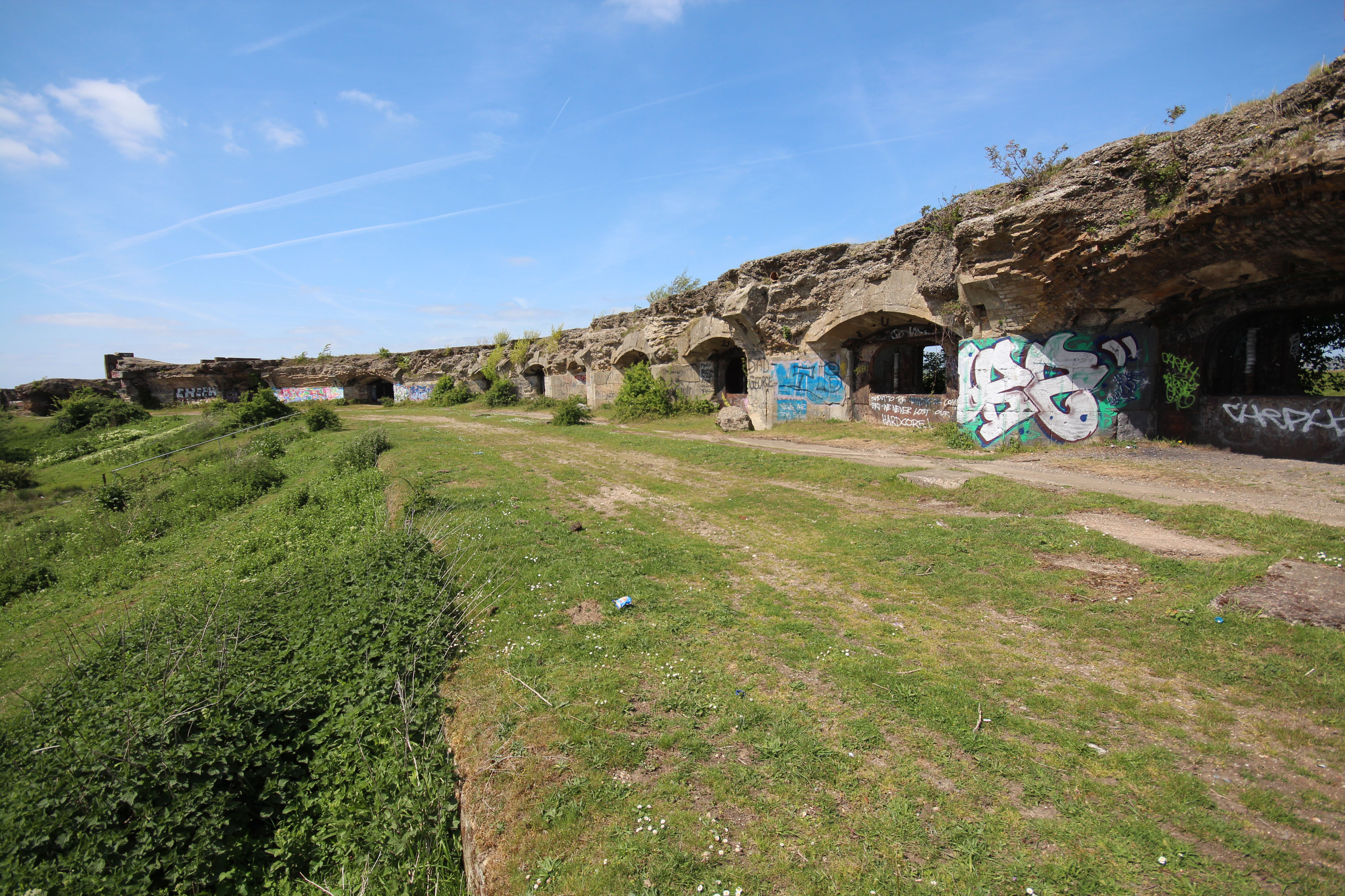 Interior view of Shornemead Fort